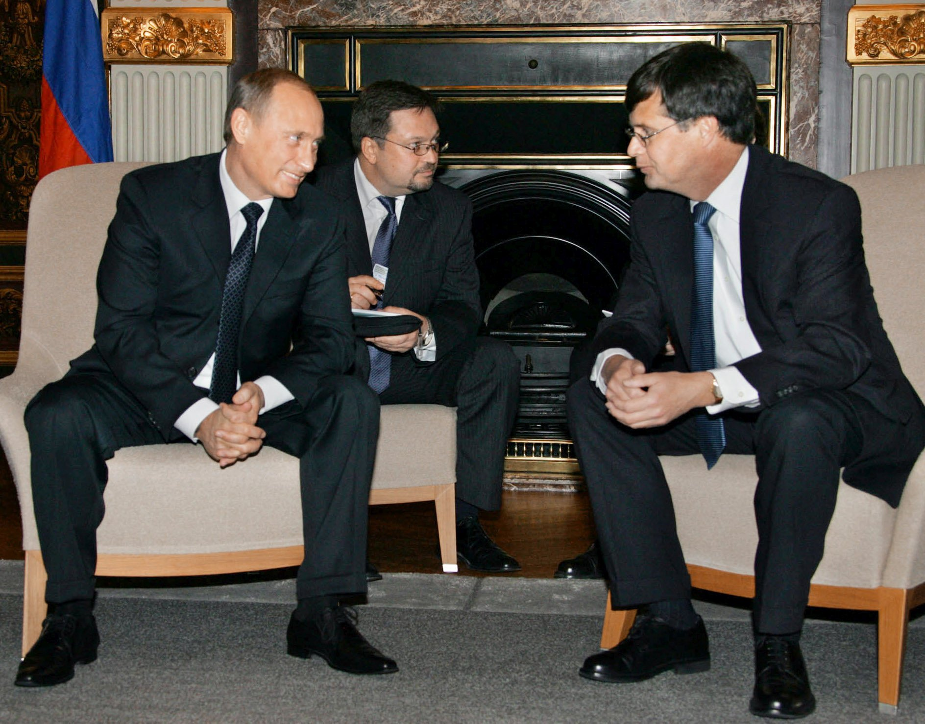 BINNENHOF, THE HAGUE. Talks with Dutch Prime Minister Jan Peter Balkenende.